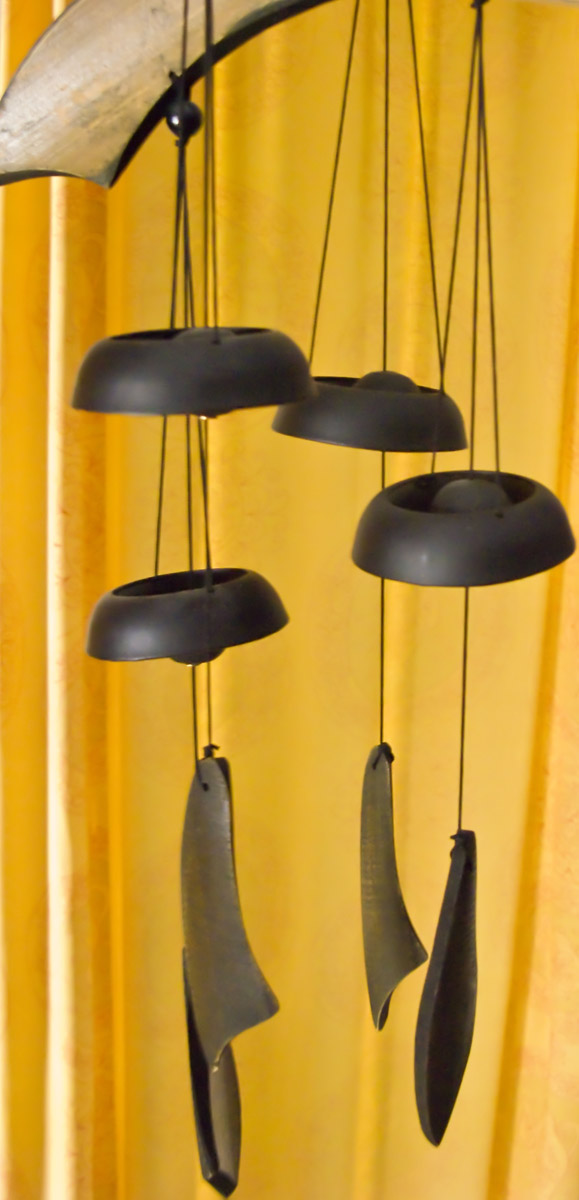 Such a pretty wood-clad thing :3